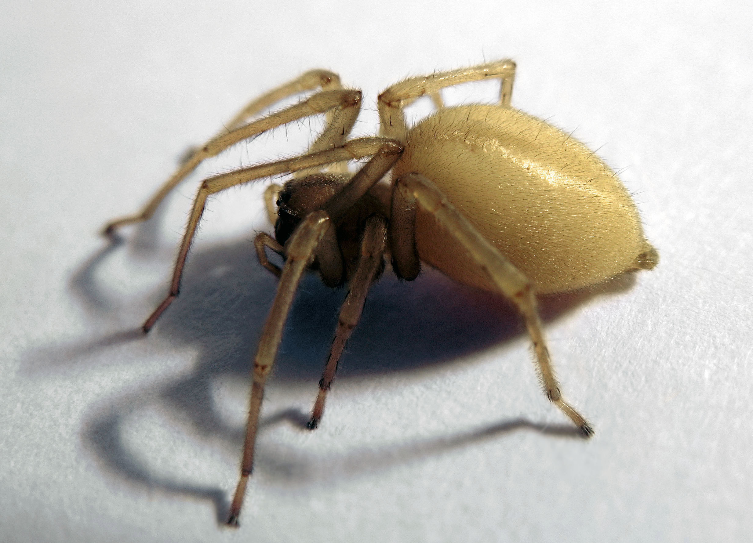 Appears to be a female Yellow sac spider (Cheiracanthium mildei), Kirkland, Washington.